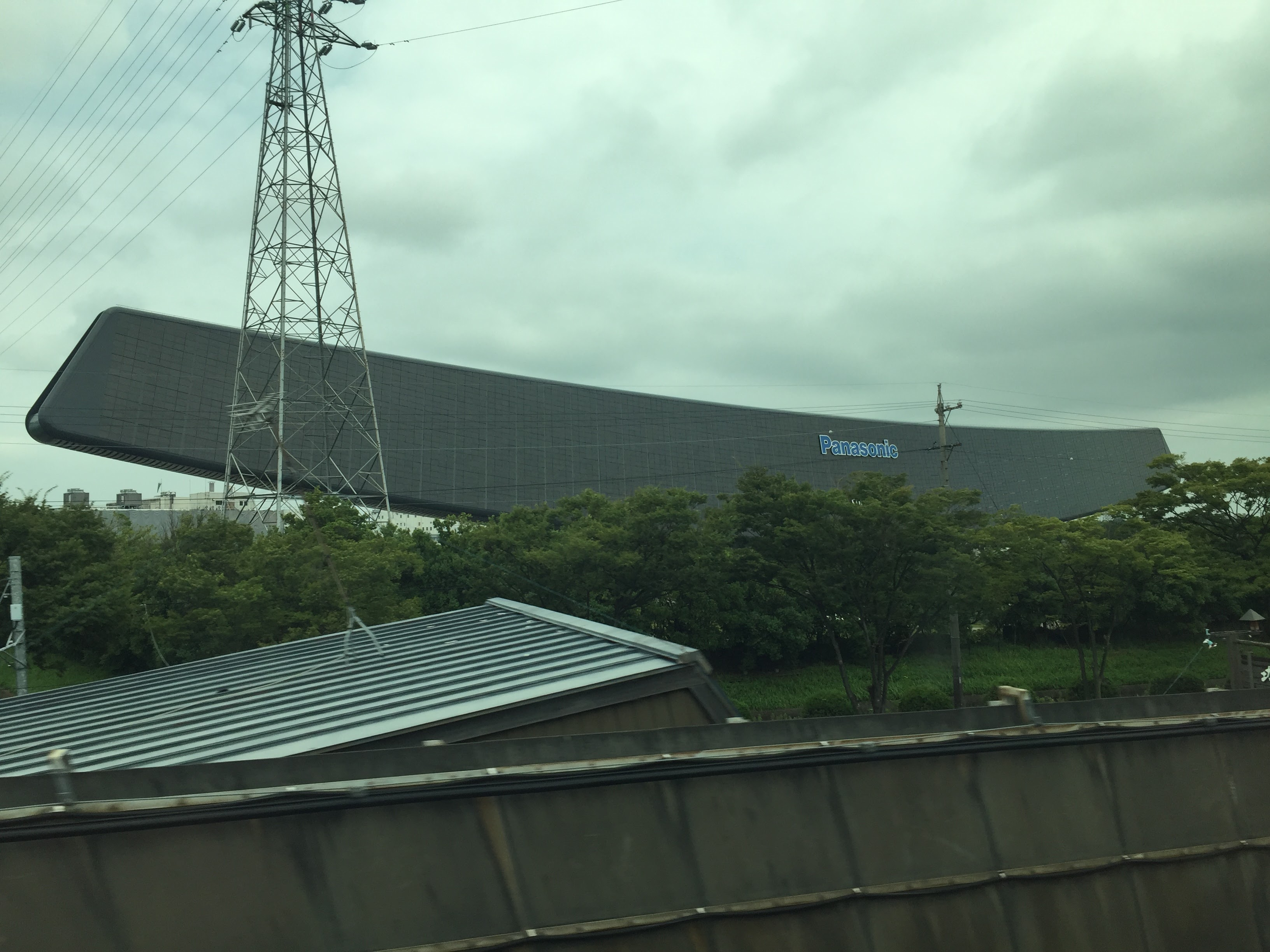 Panasonic Solar Ark as seen from the Tokaido Shinkansen between Tokyo and Kyoto